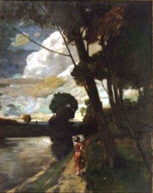 Landschaft mit Wasserträgerin am Fluß